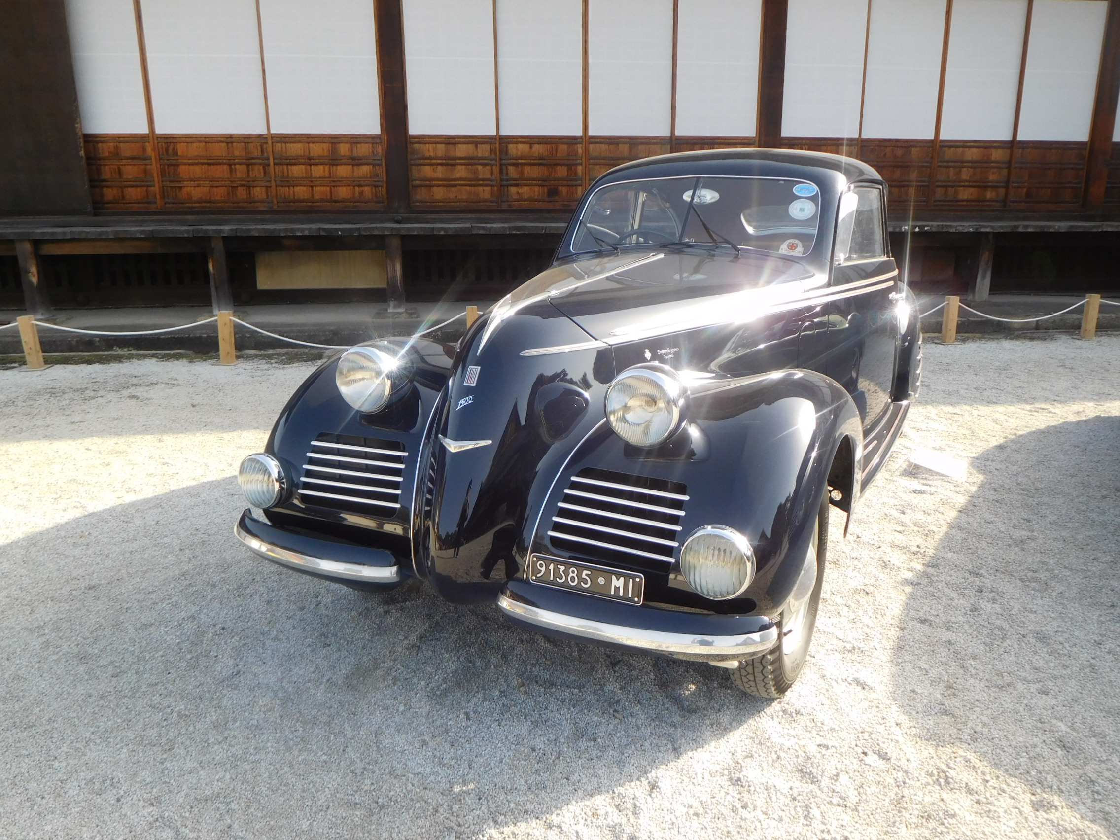 Fiat 1500 6C touring, 1939, at the Concorso d'Eleganza Kyoto 2018, Nijō Castle, Kyoto.